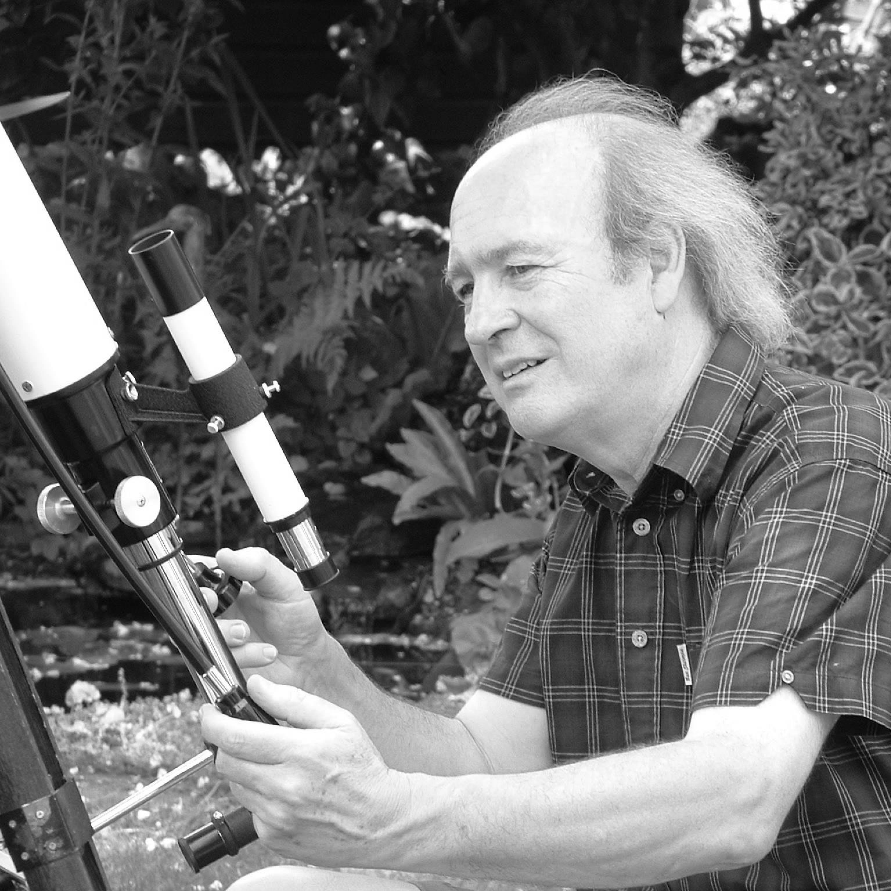 J.M.T.Thompson